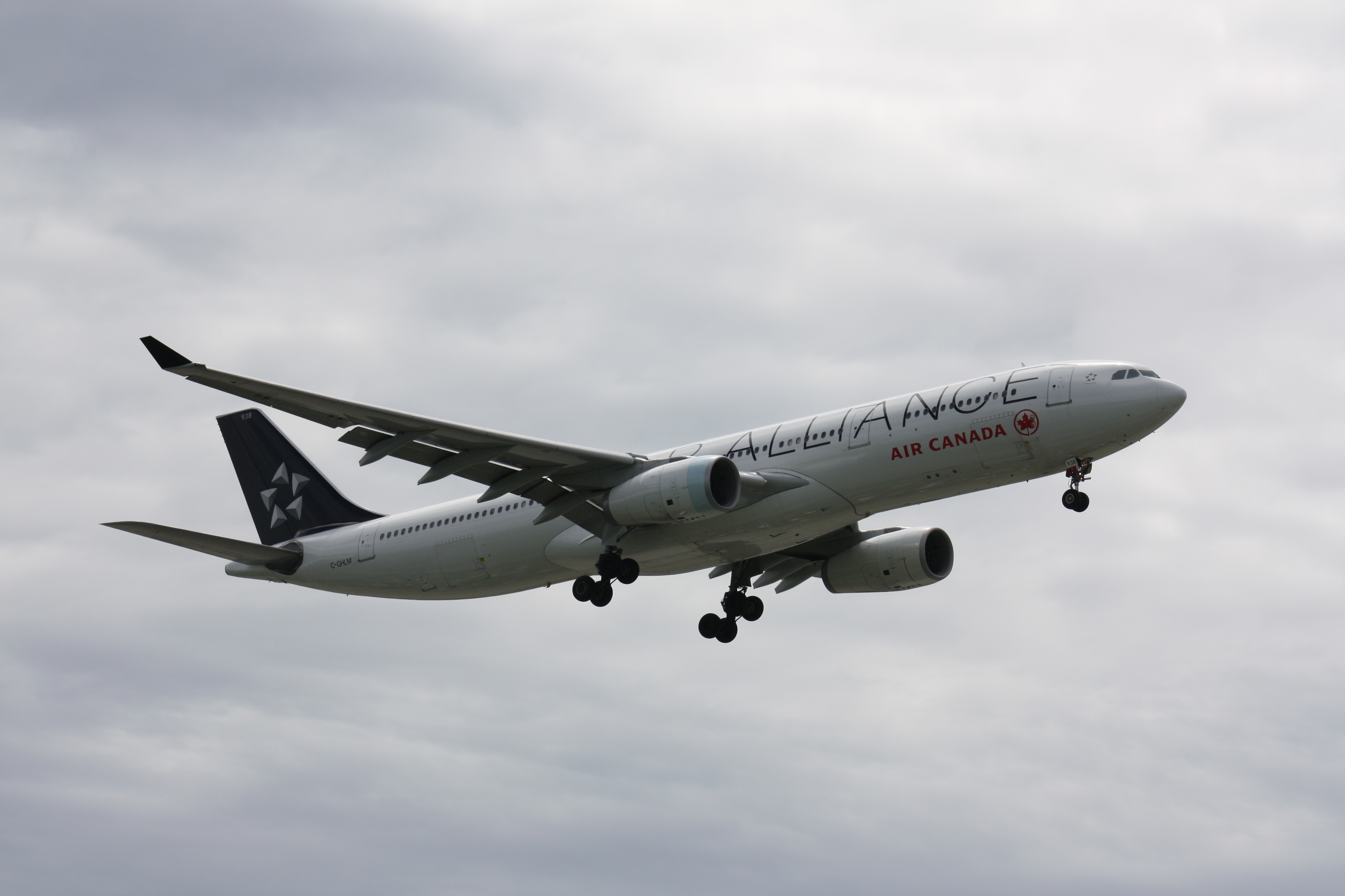 An Air Canada Airbus A330-343X, in Star Alliance livery, landing at Vancouver International Airport